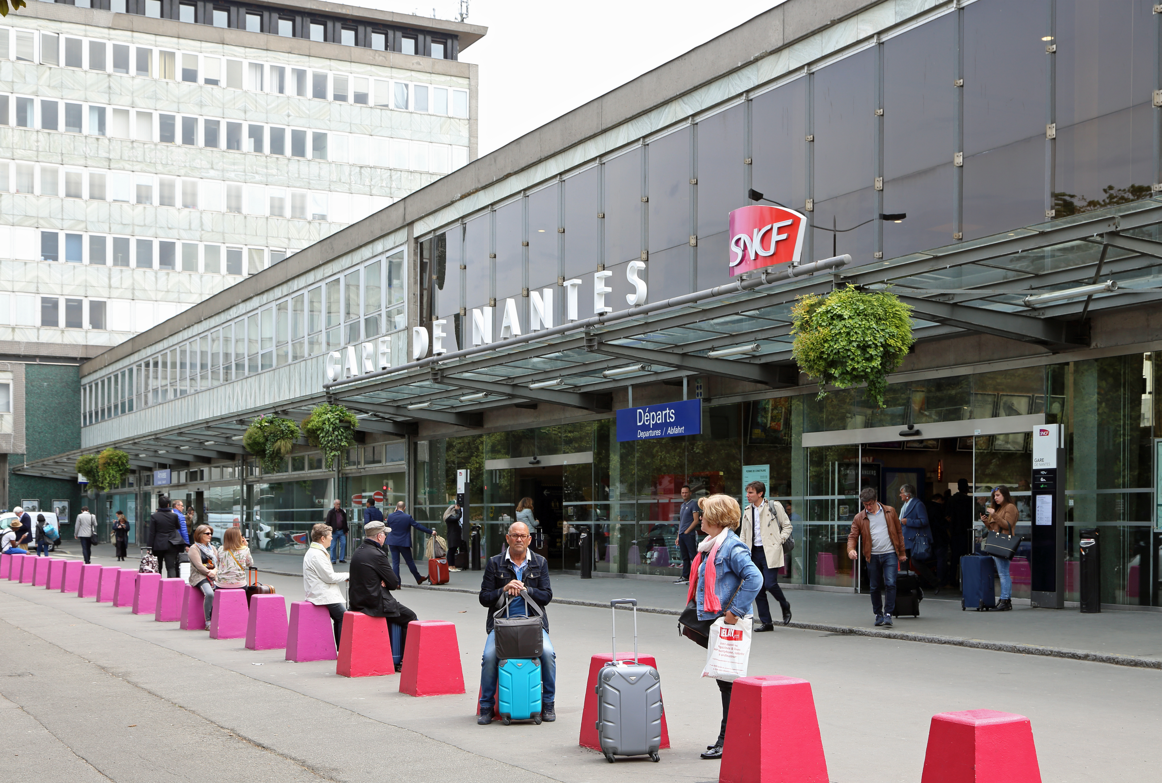 Nantes (France): train station, northern entrance